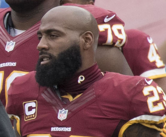 Washington Redskins free safety, DeAngelo Hall, on the sidelines during a game against the Dallas Cowboys on September 18, 2016.